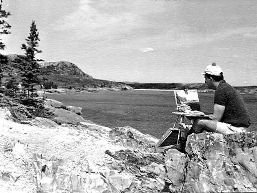 An amateur artist paints a canvas from his perch high on the Otter Cliffs in Acadia National Park, showing the Beehive, Sand Beach and Great Head.